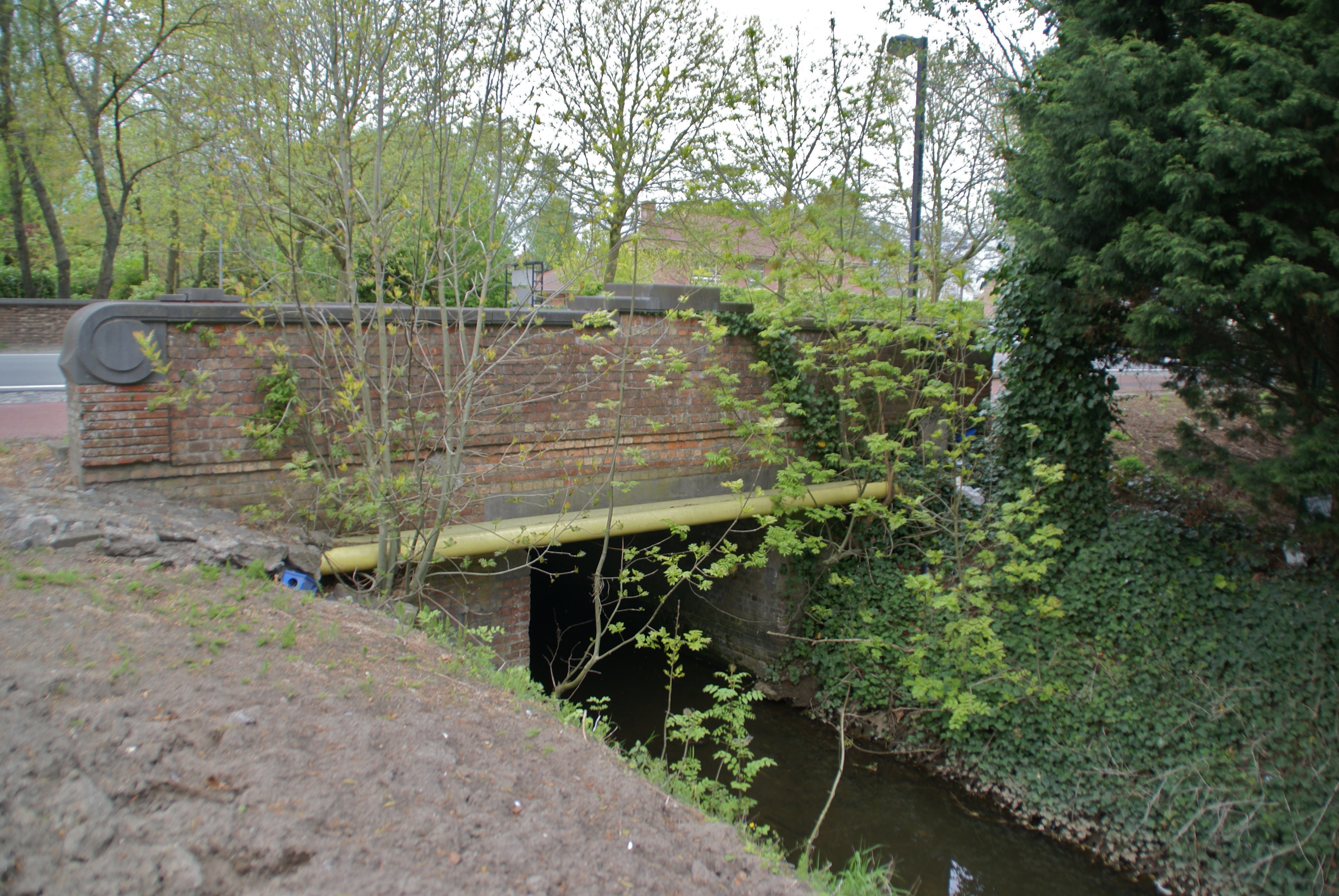 Jabbeke (Belgium): The Bridge over the River Jabbeekse Beek